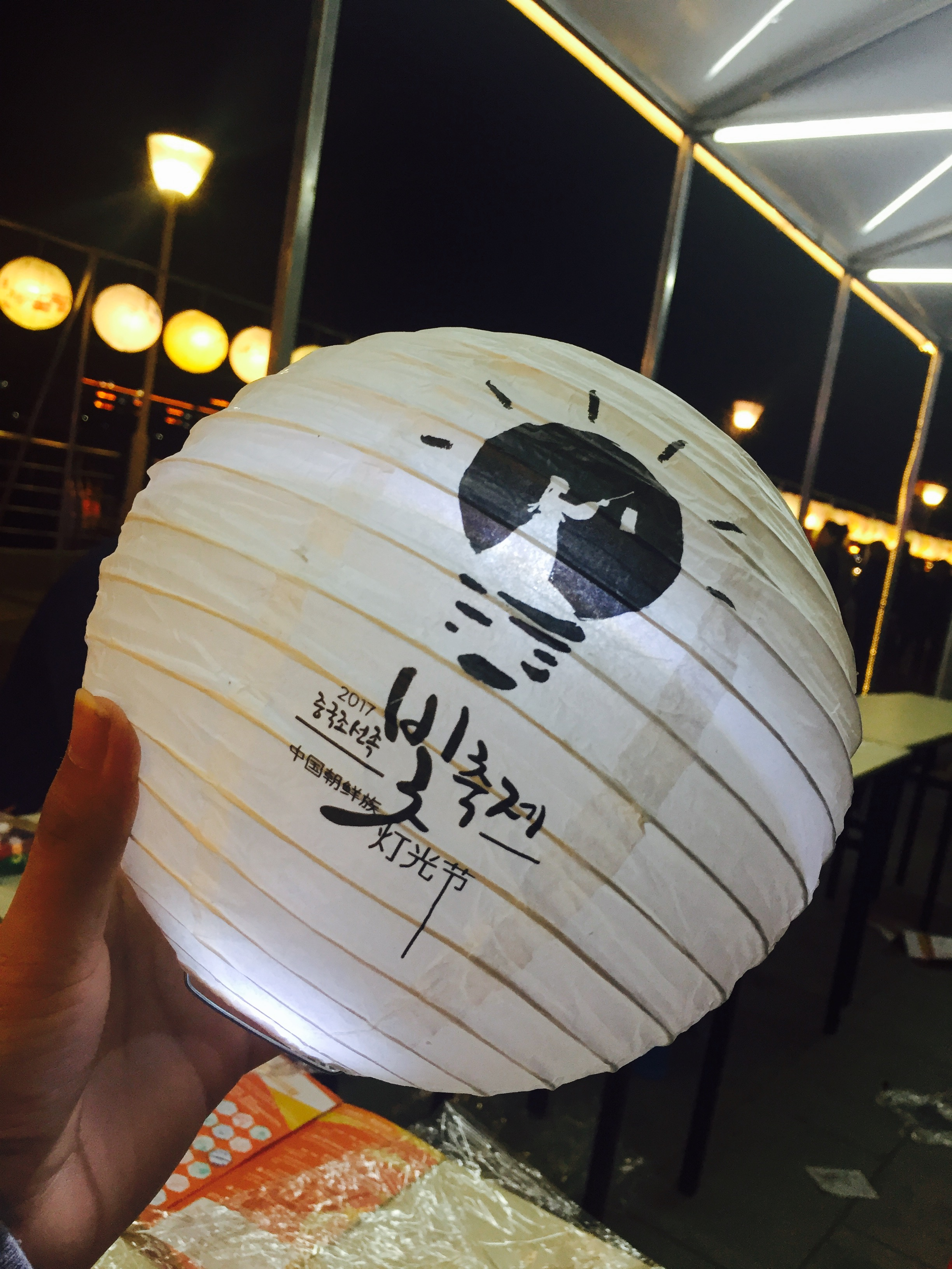 2017 CXZ Light Festival - Lantern